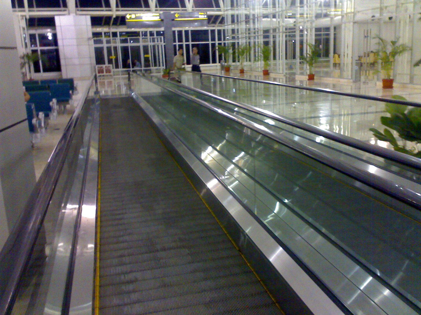 Sultan Hasanuddin International Airport